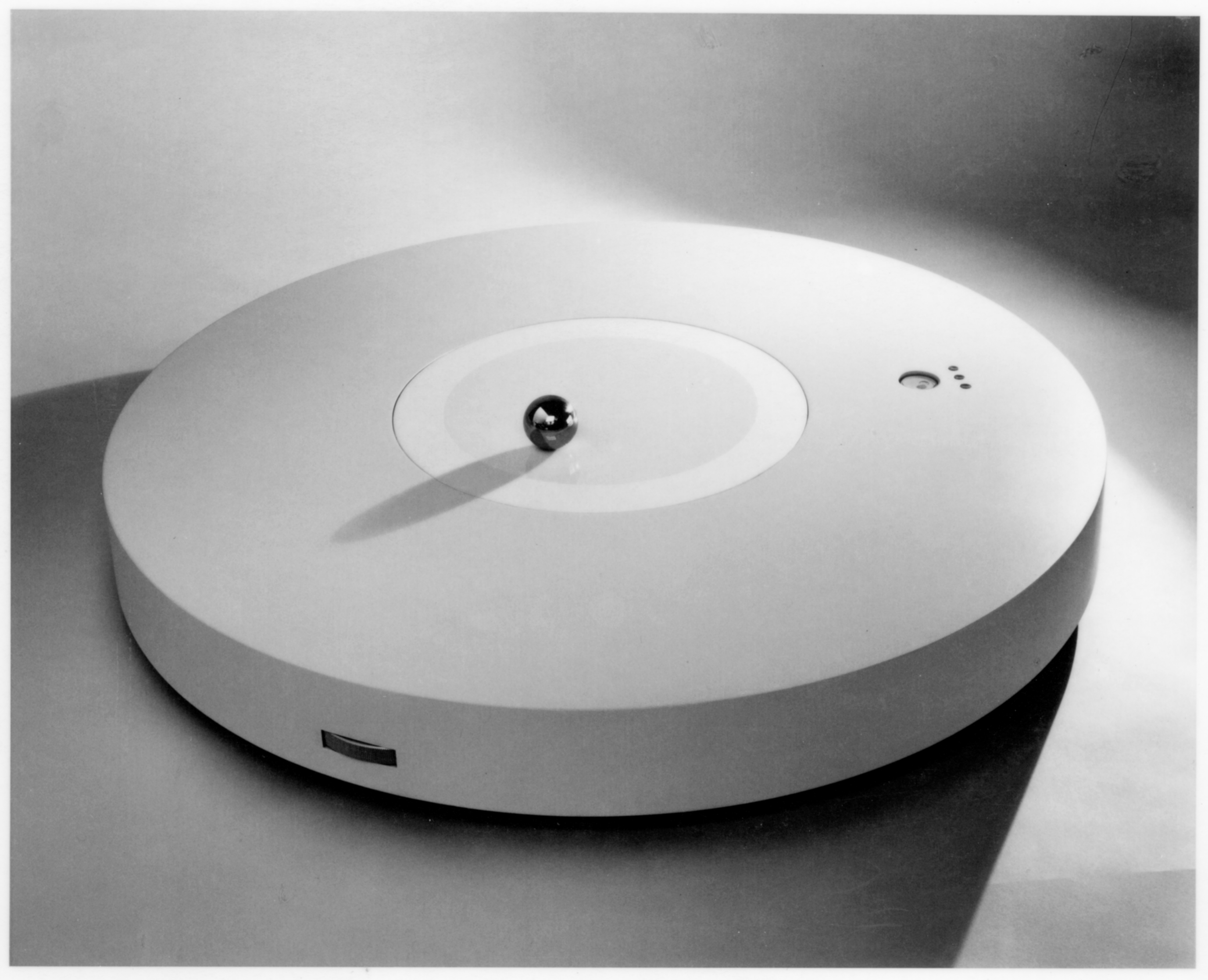 This is the electro-mechanical gaming table for the 1973 galvanic skin response version of the Will Ball games which are also known as WillBall and were dubbed "the games of competitive-relaxation".